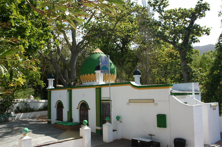 Picture of Sheik Abdurachman Matebe Shah's kramat in Constantia, Cape Town